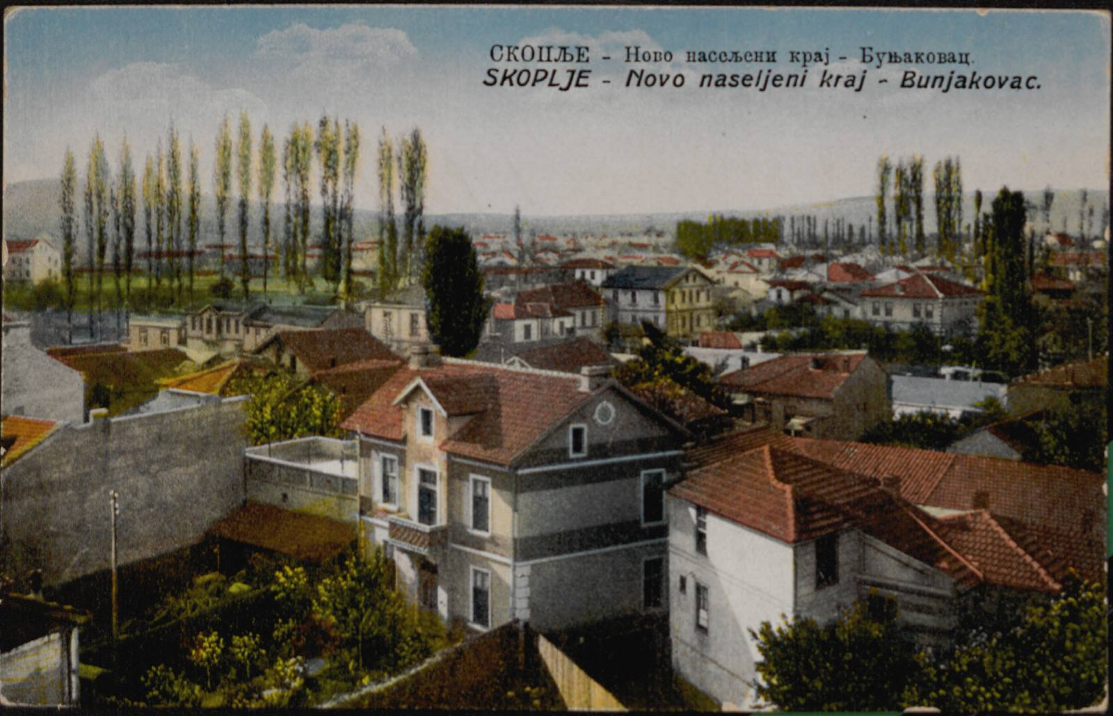 Postcard of Skopje, Bunjakovec, 1929